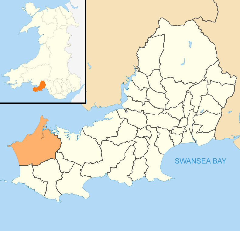 Location map of the community (civil parish) of Llangennith Llanmadoc and Cheriton in the City and County of Swansea, Wales